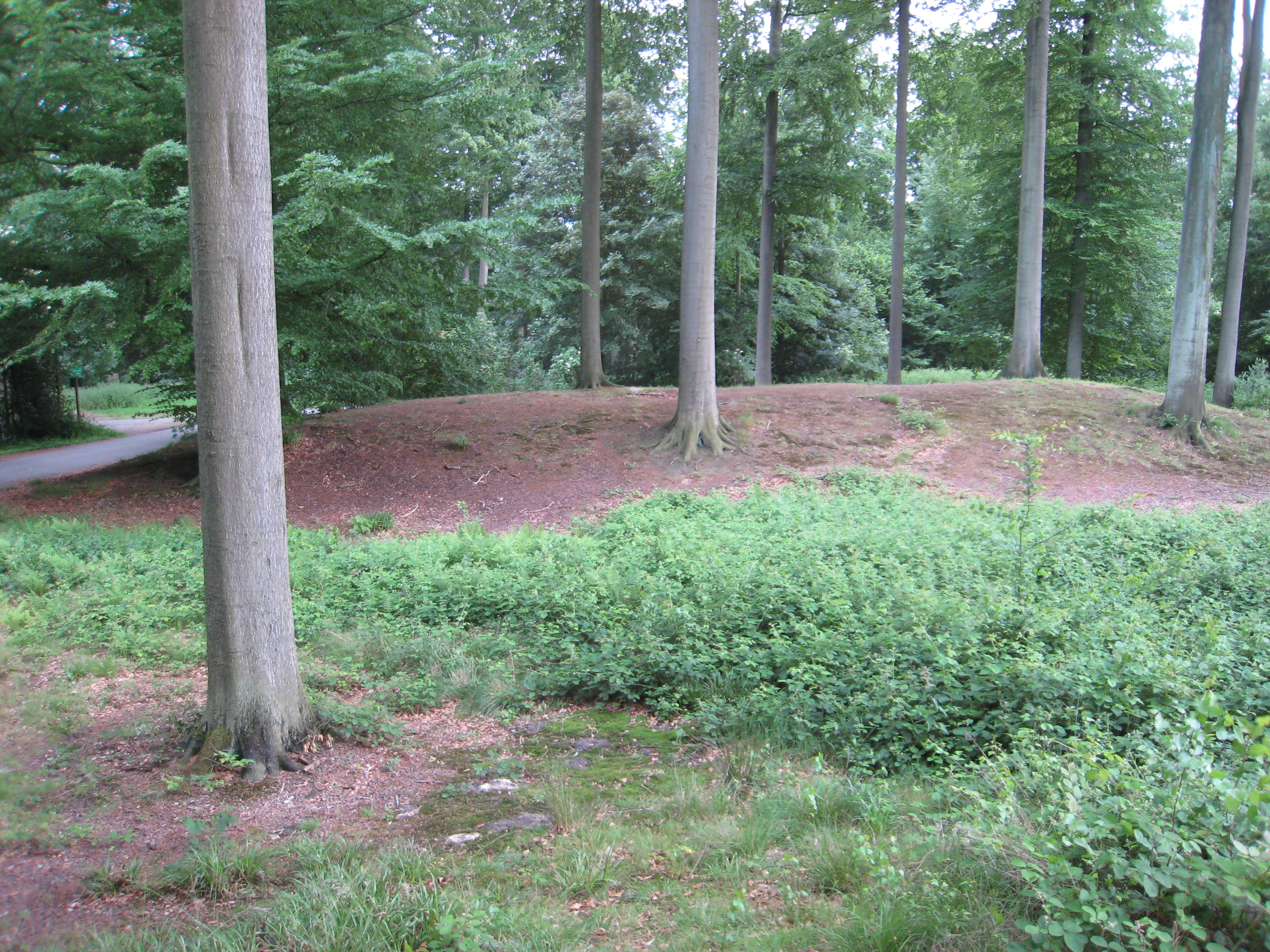 The more southerly of the two tumuli in the Forêt de Soignes, Brussels Capital Region, Belgium. Photograph taken from the other one.